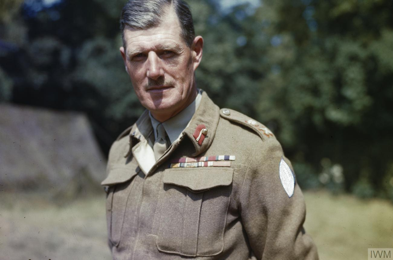 Lieutenant General J T Crocker, Cb, Cbe, Dso, Mc, Commander of 1st Corps, France, August 1944 Head and shoulders portrait of Lieutenant General J T Crocker CB CBE DSO MC, Commander of 1st Corps, France.